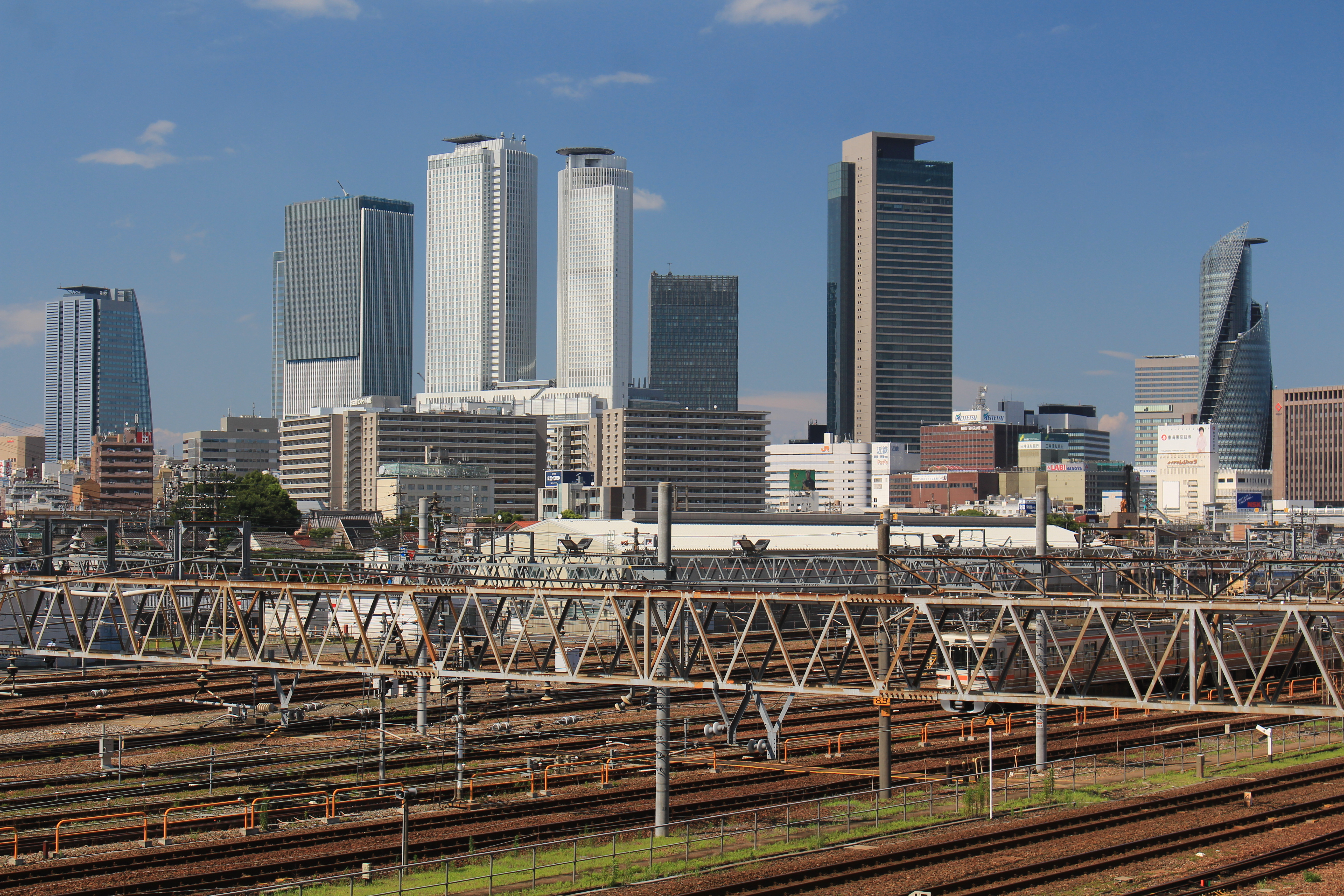 Skyscrapers of Meieki in Nagoya, Aichi prefecture, Japan.